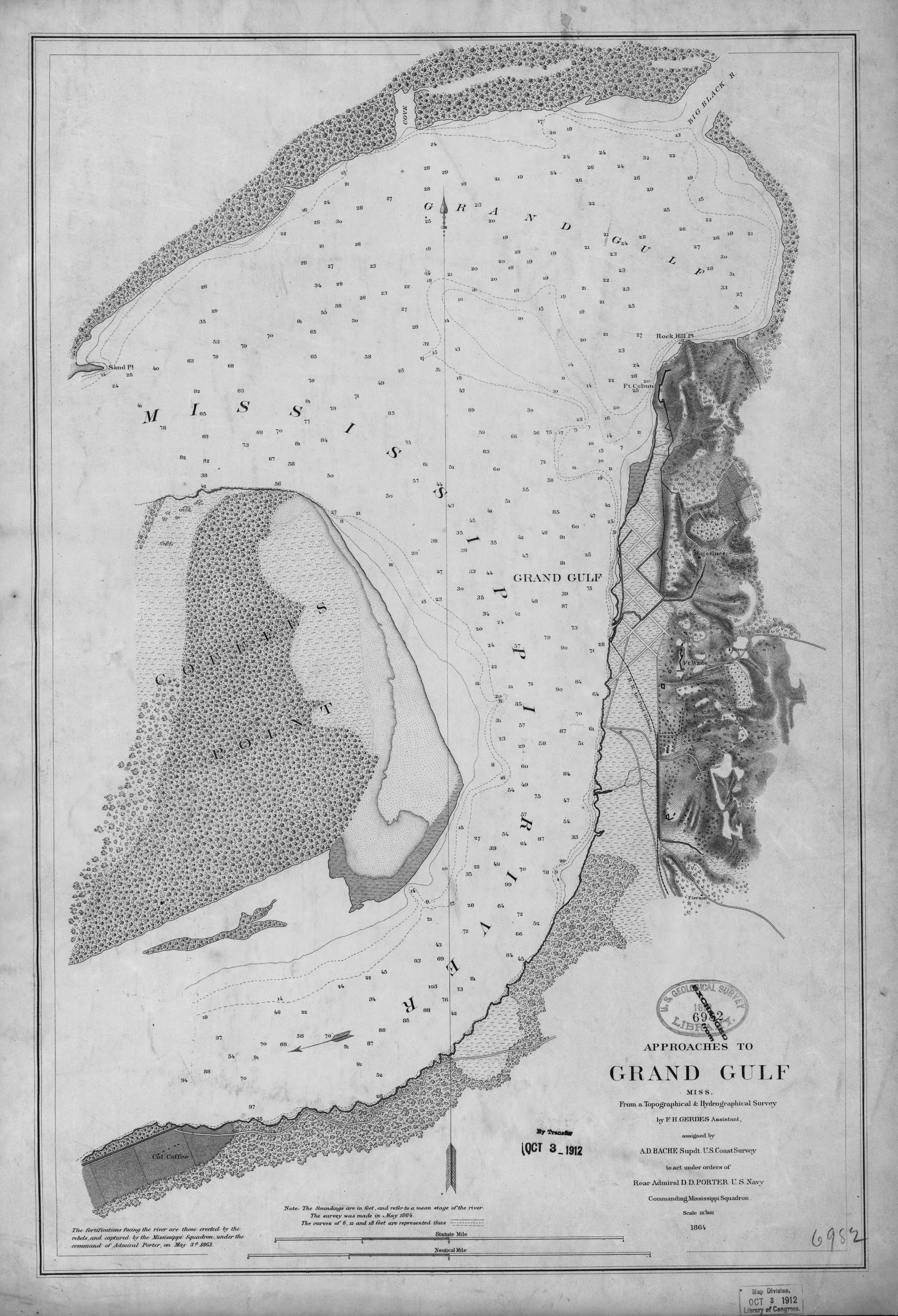 Approaches to Grand Gulf, Miss. From a topographical & hydrographical survey by F. H. Gerdes, Assistant, assigned by A. D. Bache, Supdt, U.S. Coast Survey, to act under orders of Rear Admiral D. D. Porter, U.S. Navy, commanding Mississippi Squadron. Shows "Ft. Cobun," "Ft. Wade," streets of Grand Gulf, "R.R. to Port Gibson," plantation of "Col. Coffee," vegetation, soundings, and relief by hachures. "The fortifications facing the river are those erected by the rebels, and captured by the Mississippi Squadron, under the command of Admiral Porter, on May 3d 1863."